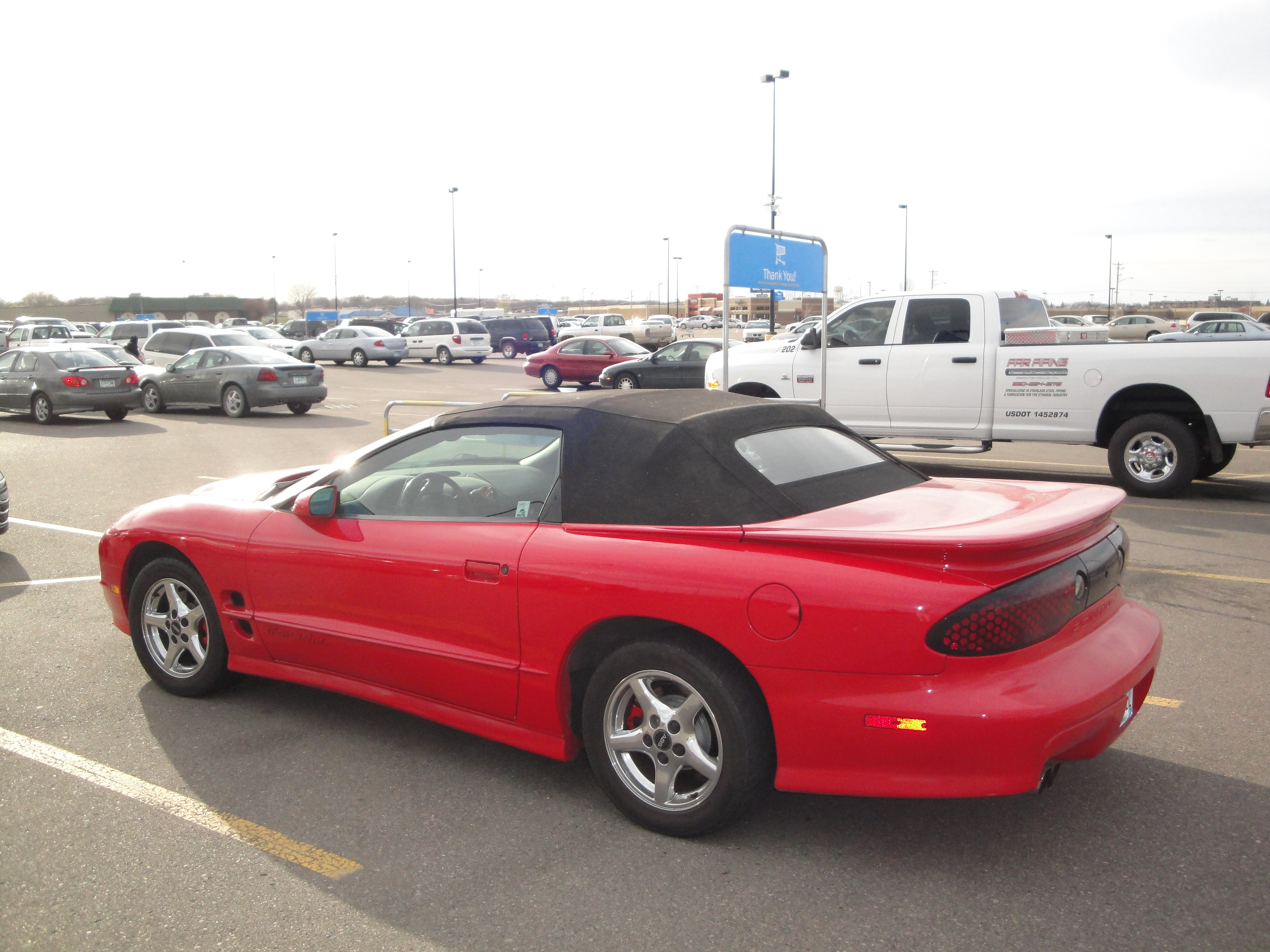 98 Pontiac Trans Am